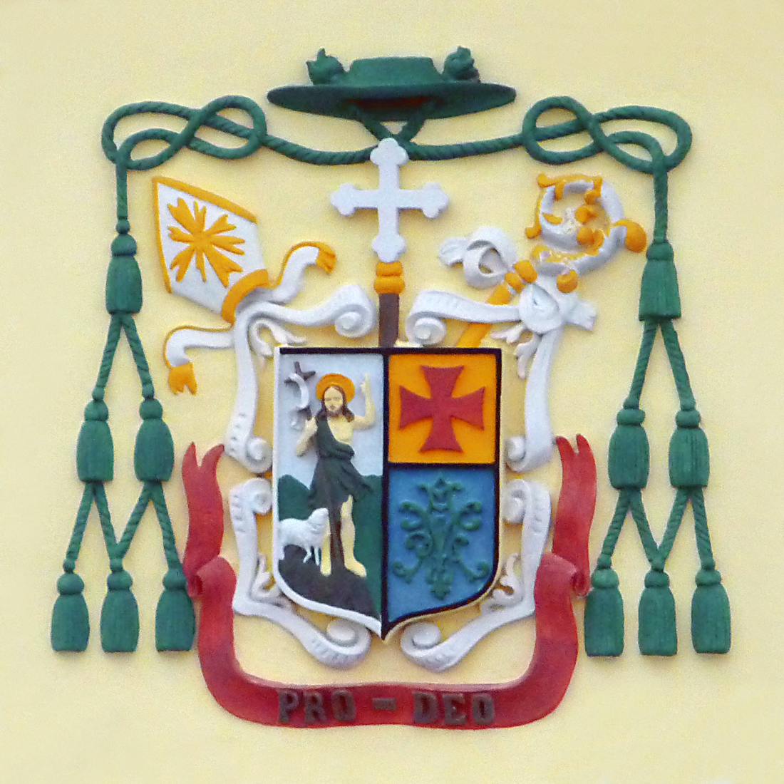 Coat of arms of Johannes Baptist Rößler, bishop of Sankt Pölten, Austria (1894 - 1927). Gabel of the former episcopal institute for deaf-mute, St. Pölten.